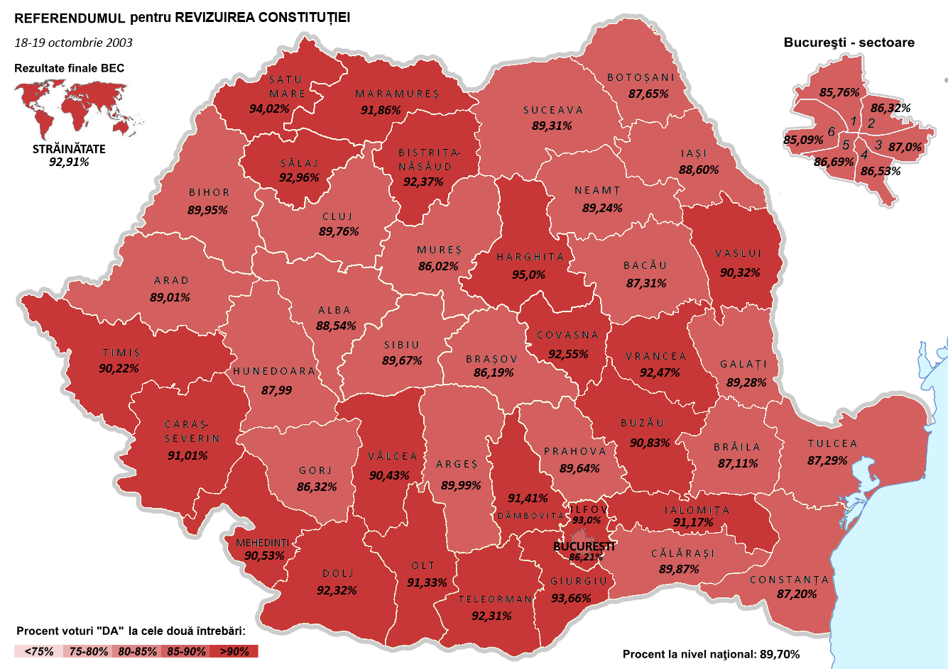 Map with the percentage of YES votes for each county and romanian diaspora.